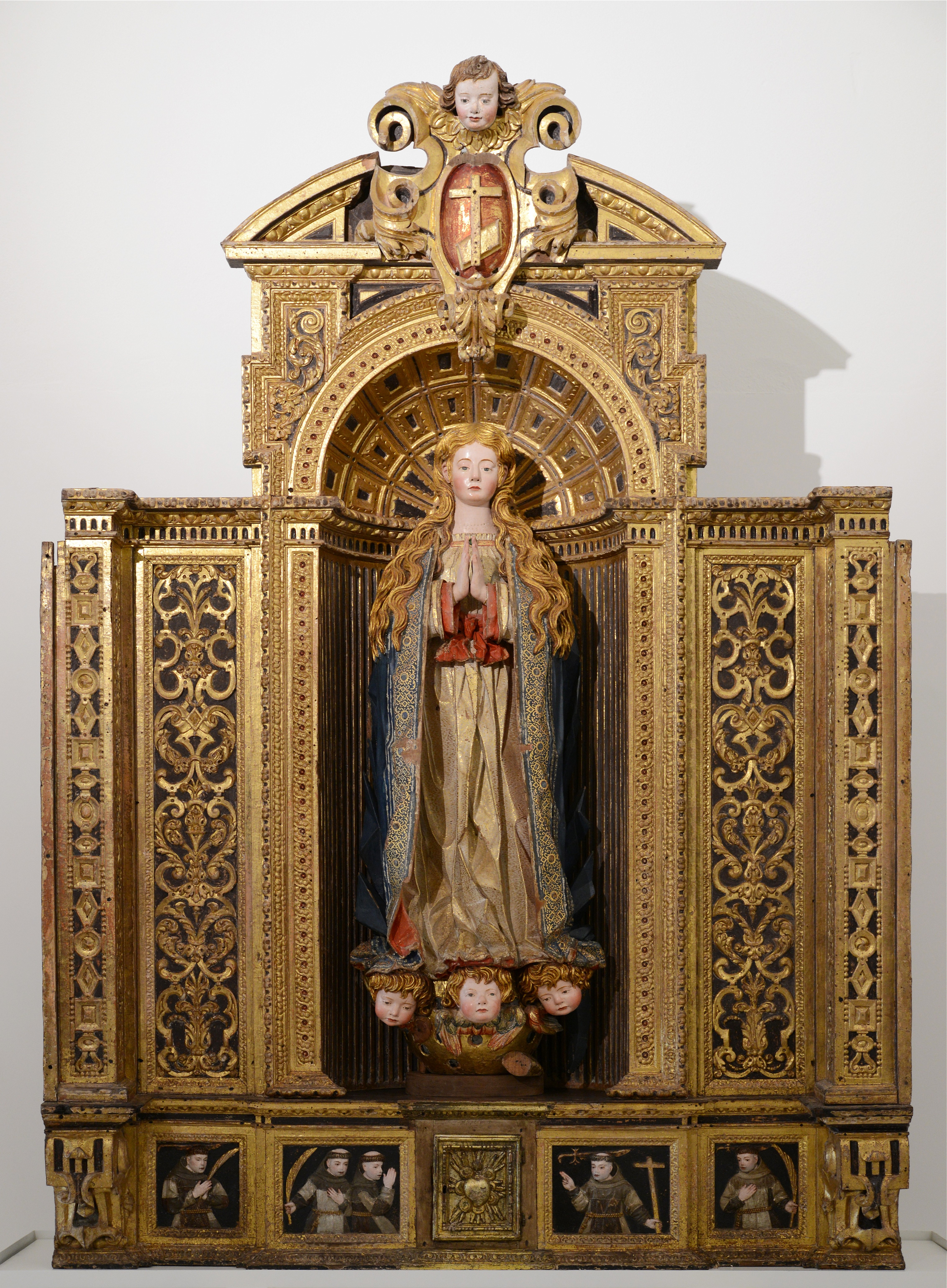 Altar piece withe the Immaculate Conception. Unknown Portuguese master, 17th century. Museu Diocesano de Santarém, Portugal